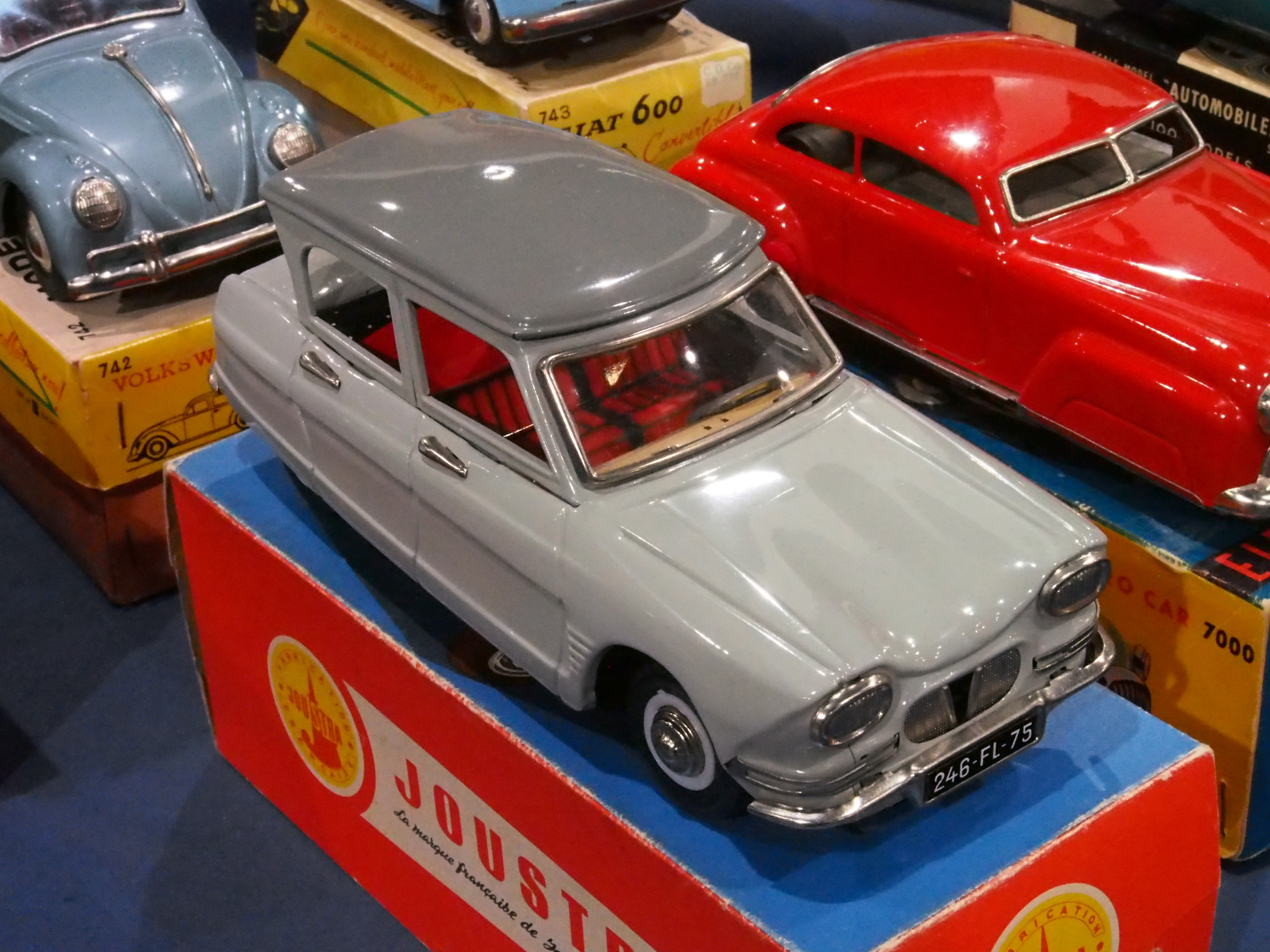 Litho tin toy Citroën Ami 6, Joustra